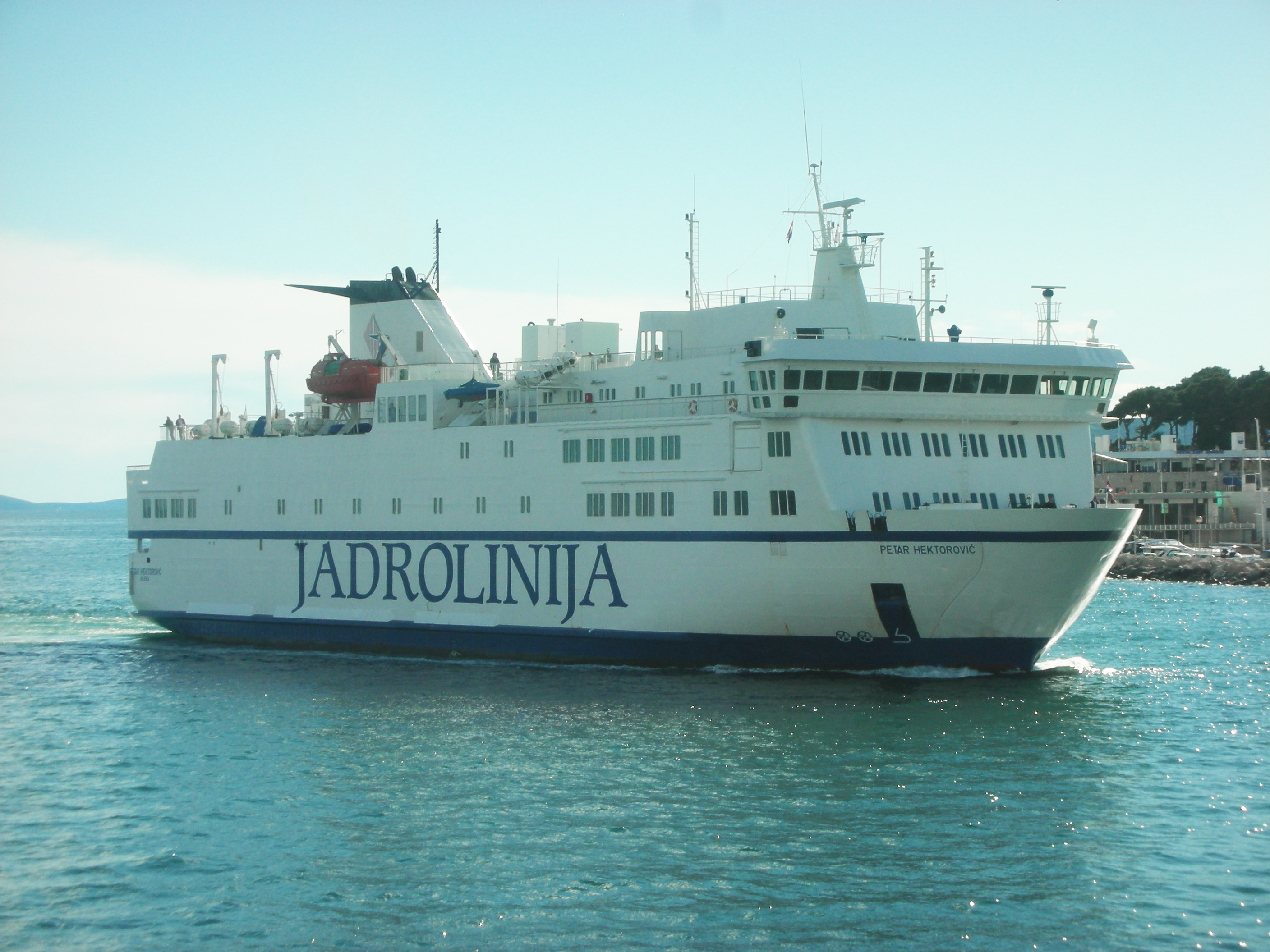 Ferry "Petar Hektorovic" entering Split harbour.